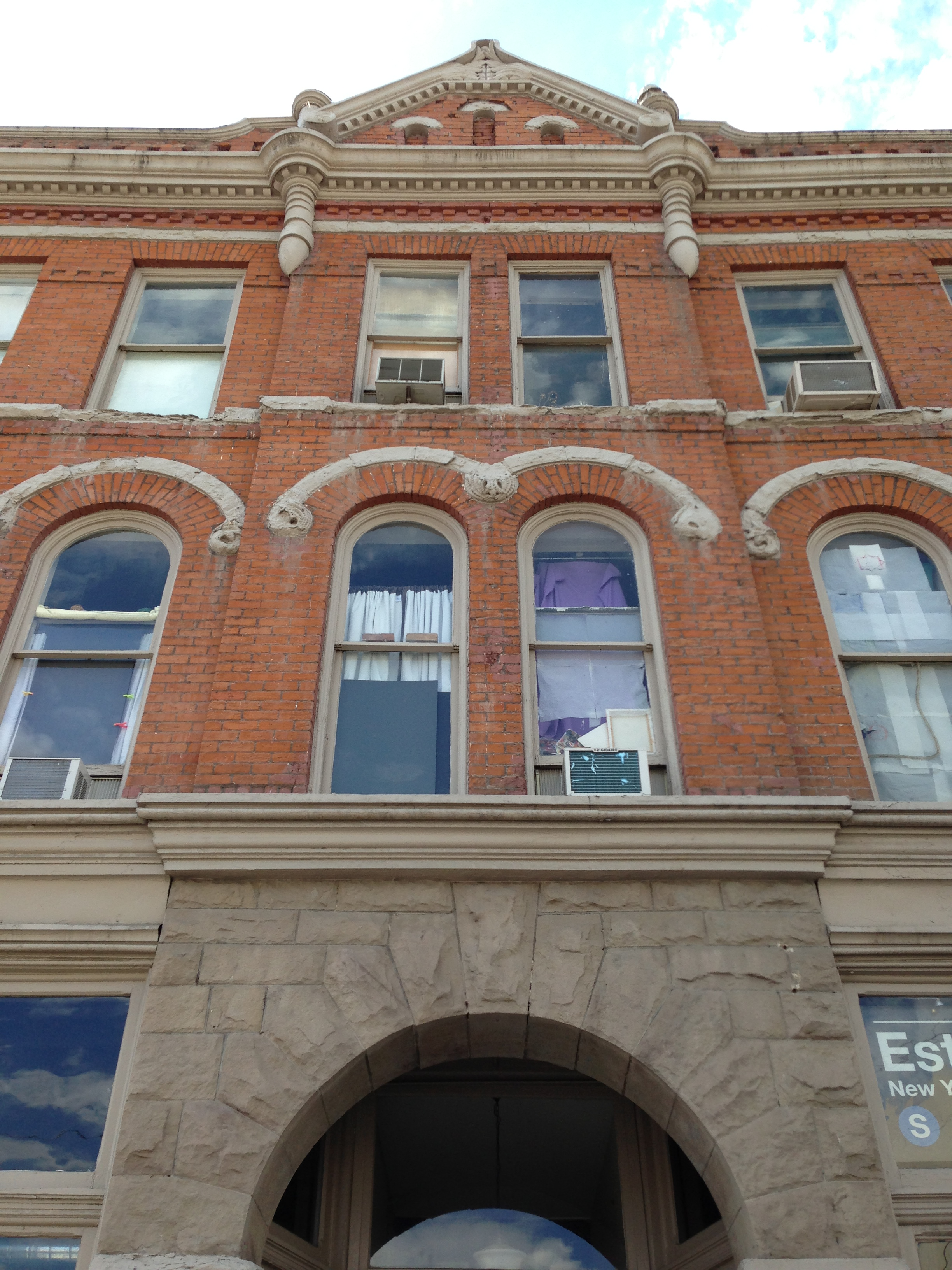 J. A. Fritsch Block, 158 E. 200 South Central City